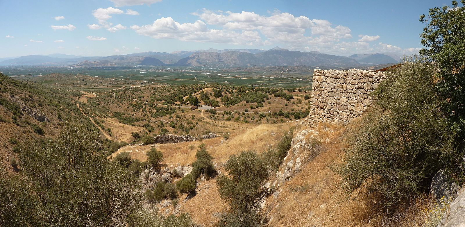 Ancient Mycenae 10